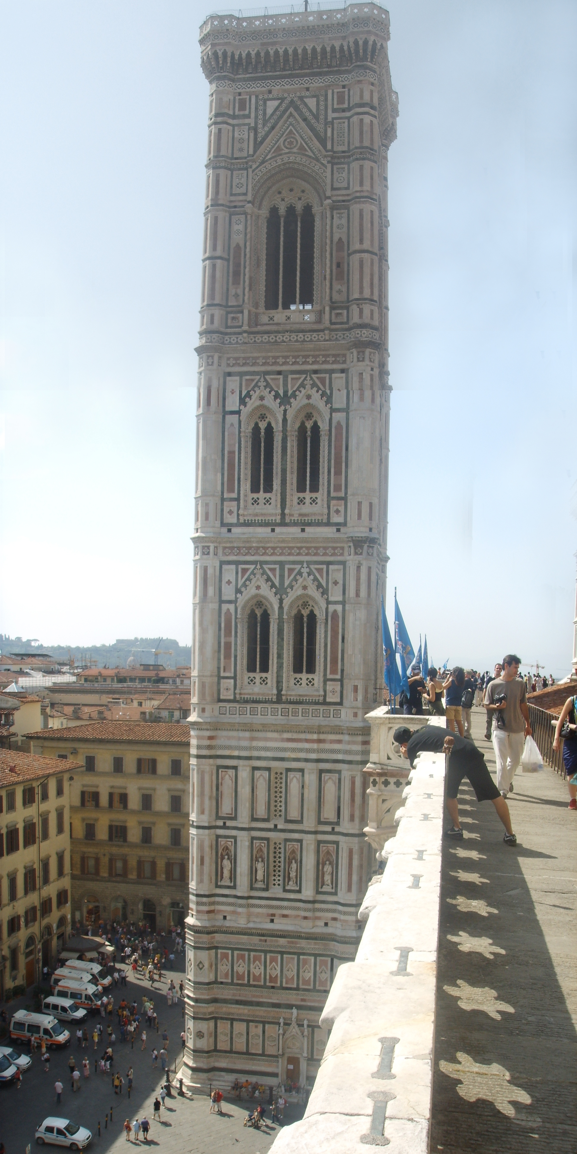 Giotto's Belltower, view in Florence, italy